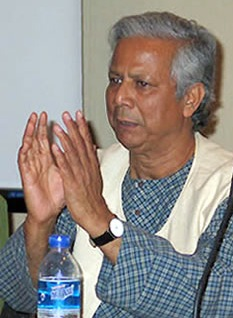 Muhammad Yunus, founder of Grameen Bank